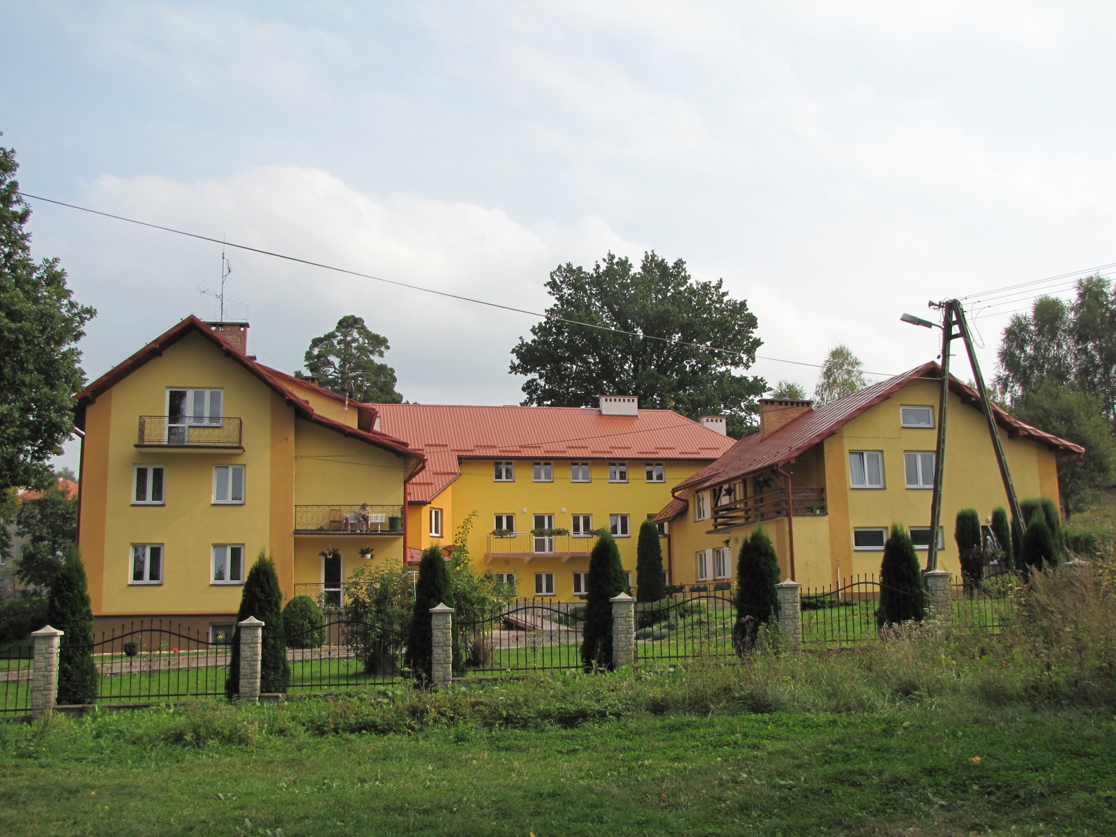 Retirement Home in Zagórz